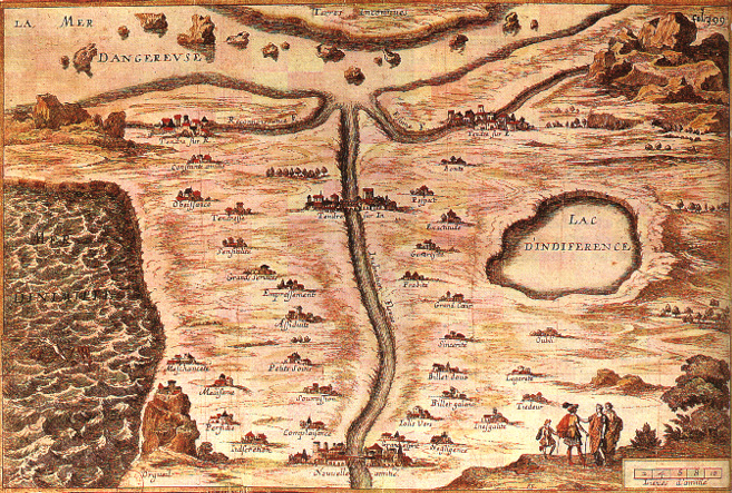 Allegorical map of the stages of love; starting near center top, one can go by way of the Reconaissance river (through the towns of Constante Amitié, Obeissance, Tendresse, Sensibilité, Grandes Services, Empressements, Assiduité, Petits Soins, Soumission, Complaisance) or by way of the Estime river (through the towns of Bonté, Respect, Exactitude, Generosité, Probité, Grand Coeur, Sincerité, Billet doux, Billet galant, Jolis Vers, and Grand esprit), or by way of the Inclination river (the most direct route) to arrive at the goal of Nouvelle Amitié. However, avoid Meschanceté, Médisance, Perfidie, Indiscretion, and Orgueil near the Mer d'Inimitié, as well as Oubli, Legereté, Tiedeur, Inegalité, and Negligence on the side of the Lac D'Indiference...